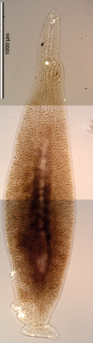 Lethacotyle fijiensis Manter & Prince, 1953, holotype 300 pixels Body only, extracted from original composite plate - Width 300 pixels for taxobox Legend in published paper: Figure 2. Photograph of the holotype of Lethacotyle fijiensis Manter & Prince, 1953. Lethacotyle fijiensis Manter & Prince, 1953 urn:lsid: :act:DA367684-AAC2-​44D0-A8E8-64894AFA647A. Holotype, slide USNPC 48718. A, body. Original photographs taken by Patricia Pilitt, USNPC.